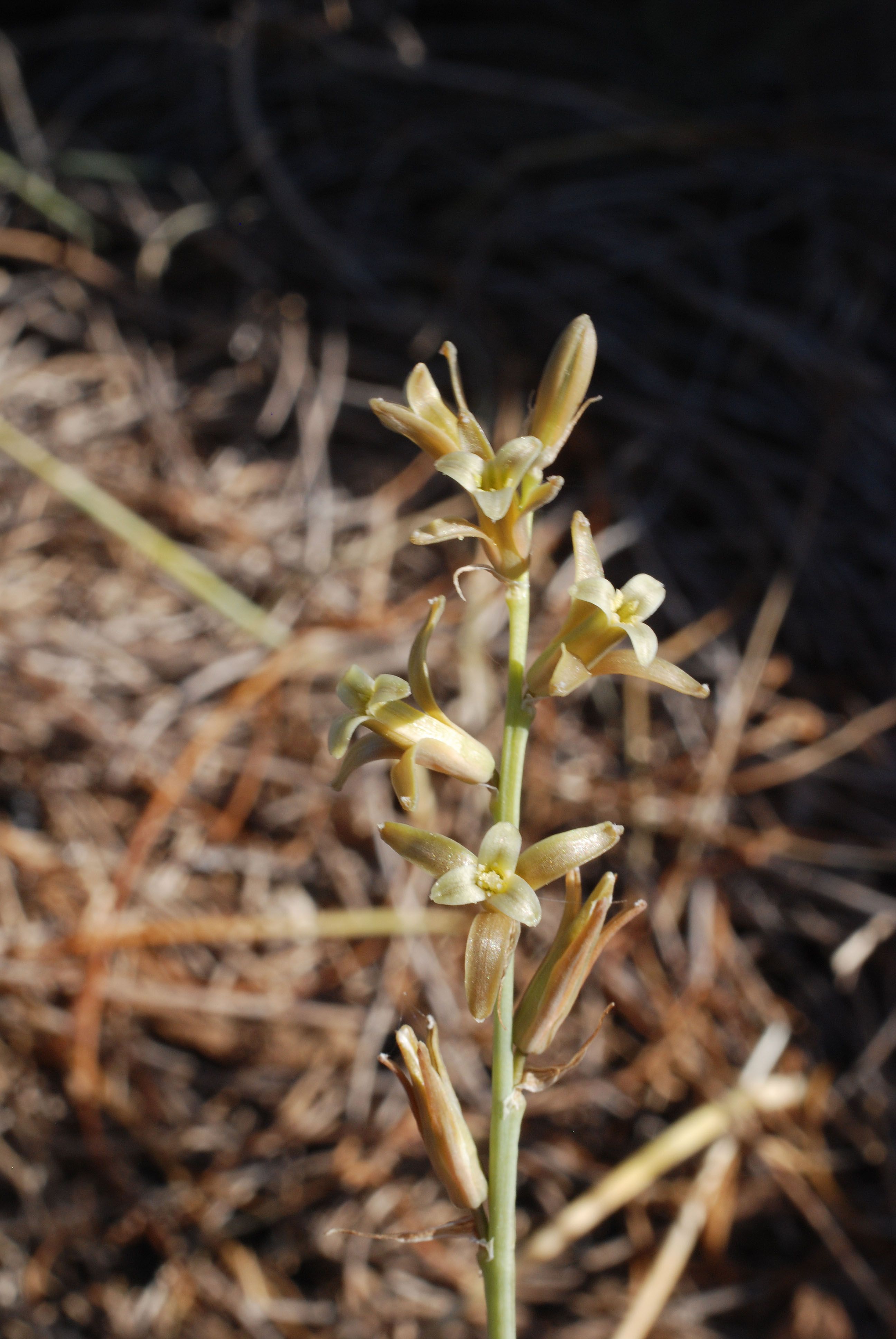 Dipcadi serotinum, Cap Blanc, San Antonio, Ibiza